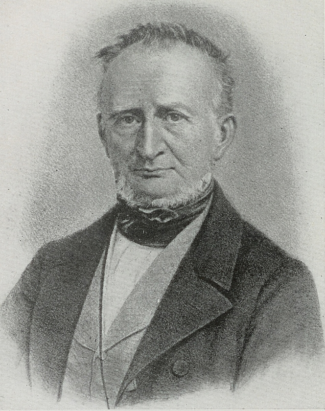 Julius Theodor Christian Ratzeburg (1801-1871), German forestry scientist